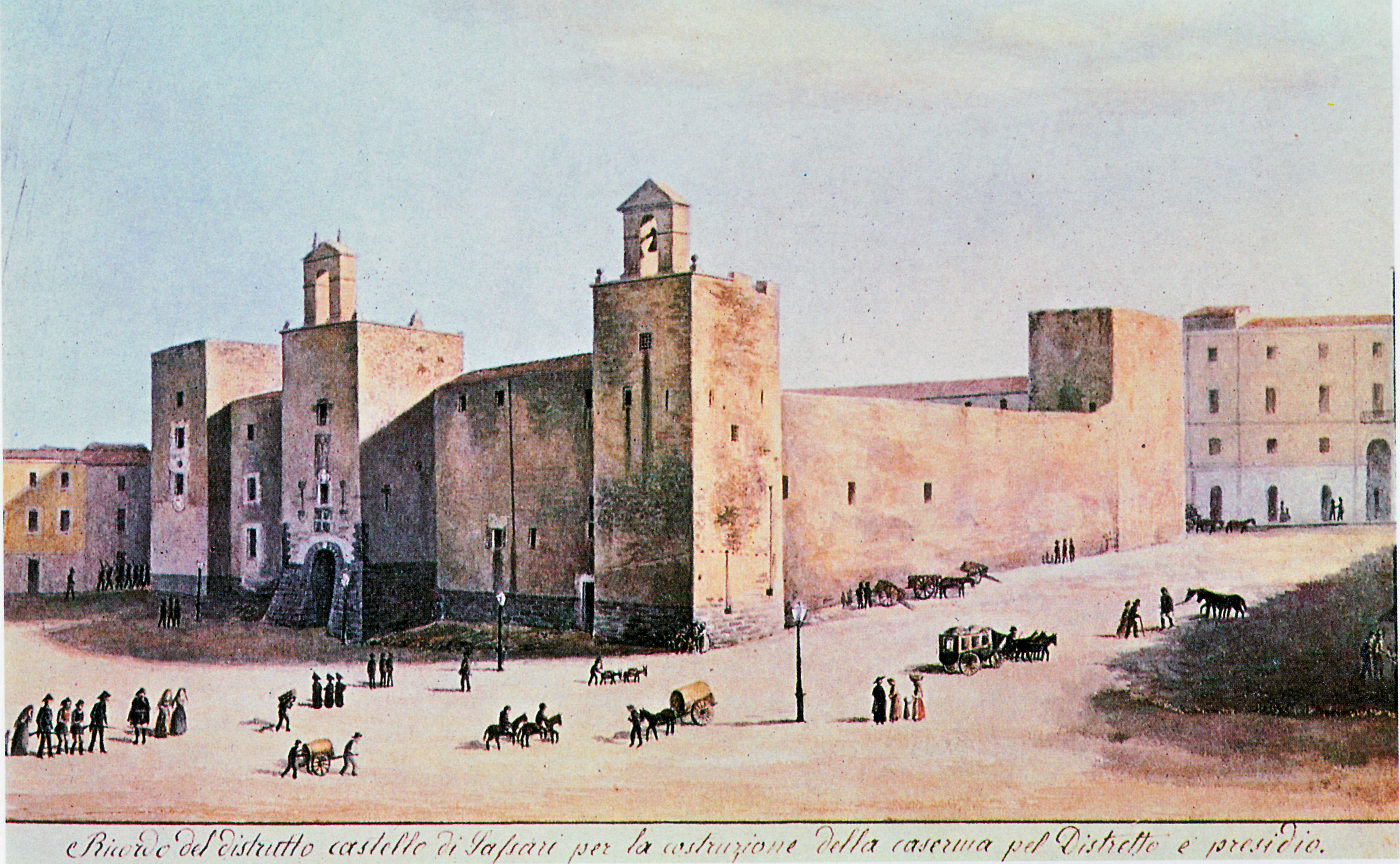 The Aragonese castle of Sassari (Sardinia)